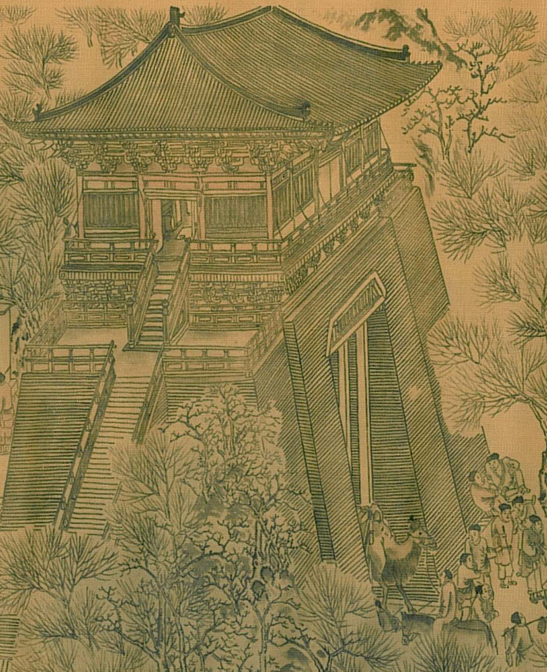 part of the Qingming Scroll